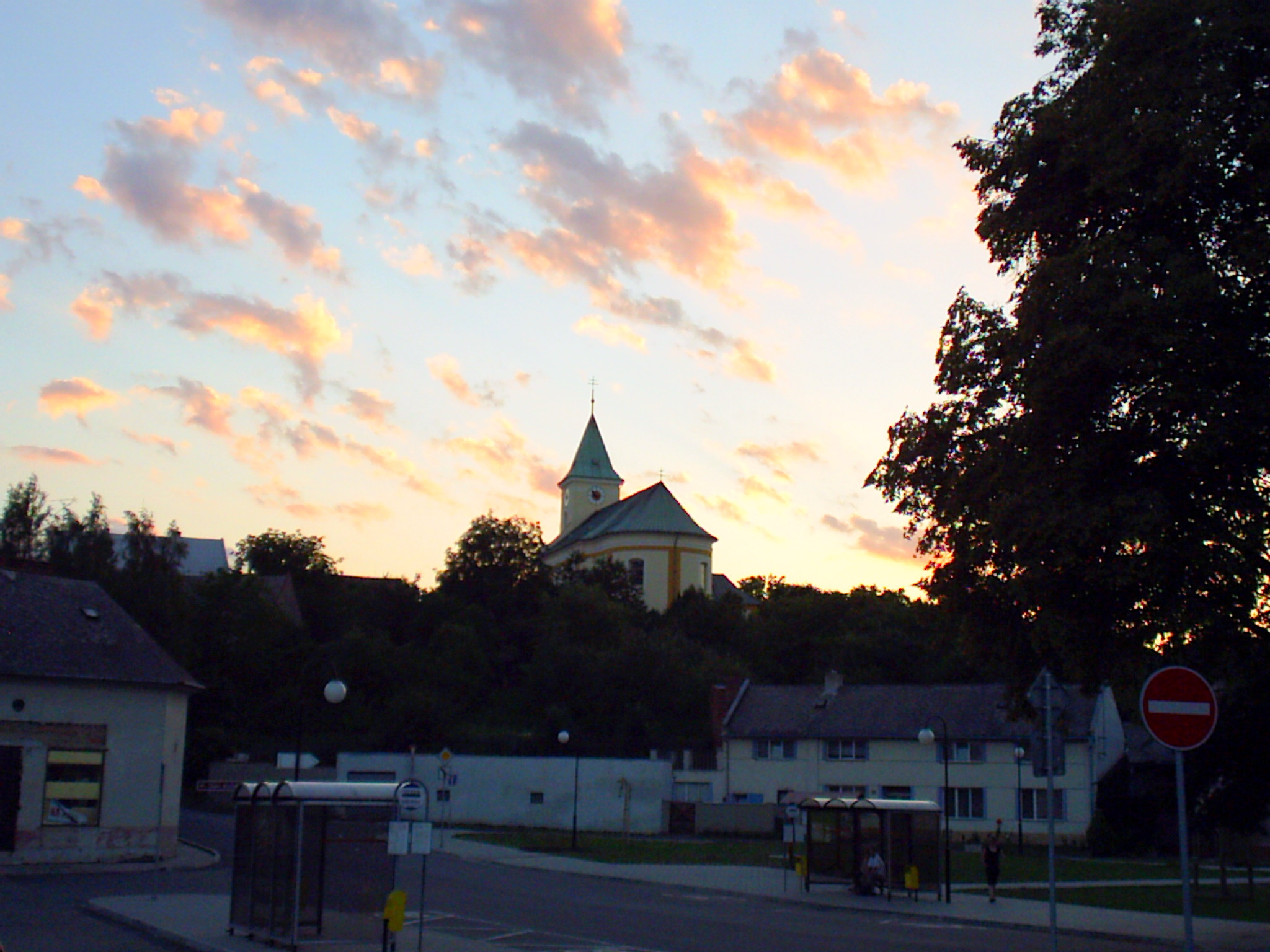 Saints Peter and Paul churche in Kostelec u Holešova